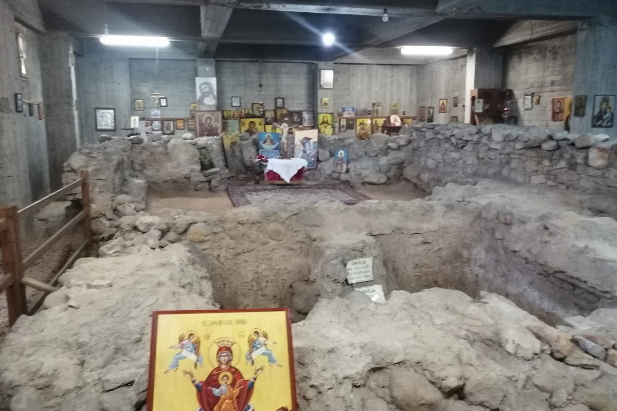 Bela Tsarkva ruins, Meliti, Florina